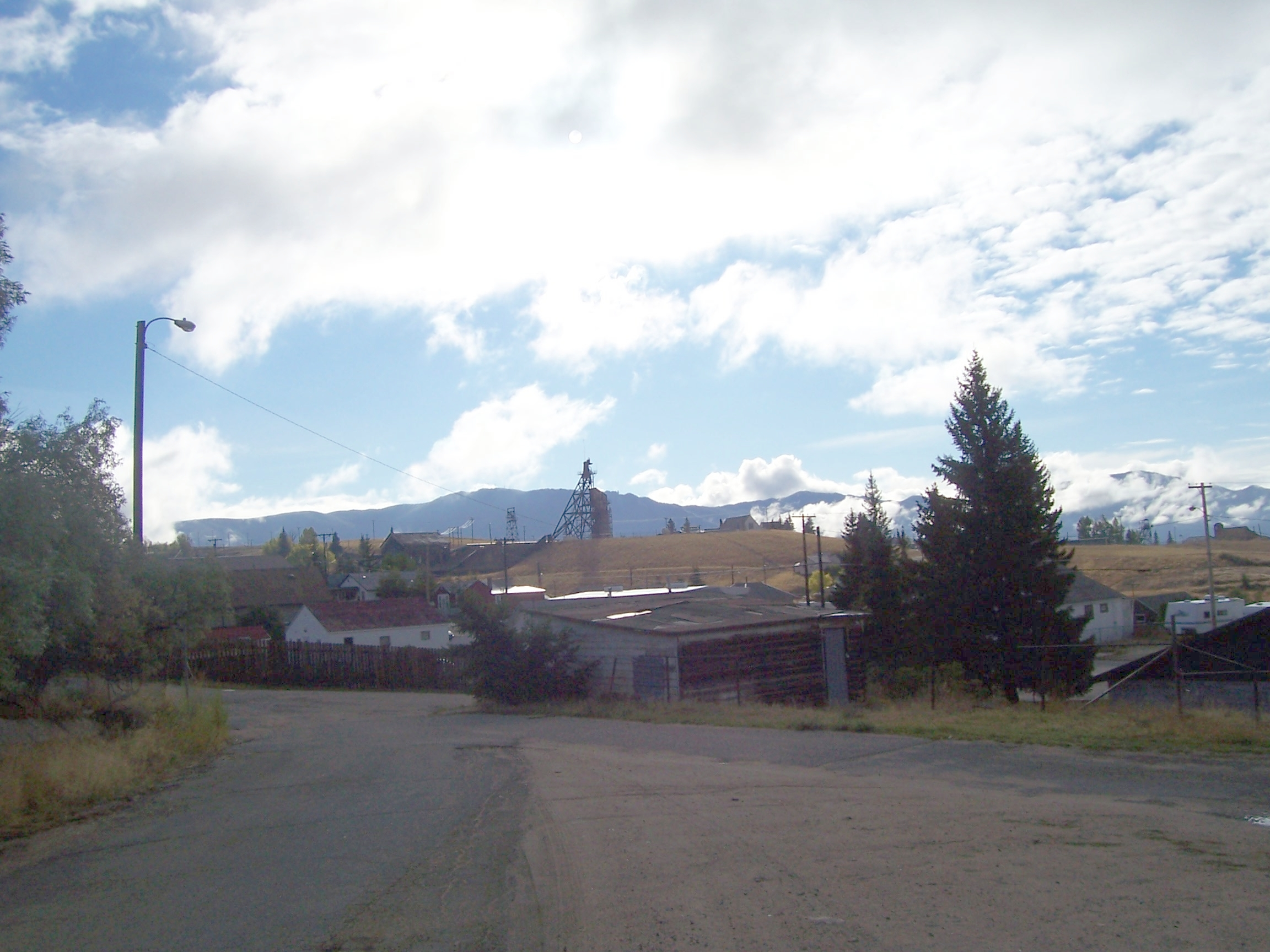 Lexington Mine in Walkerville, MT. Looking east toward the Continental Divide from North and 2nd Street in Walkerville